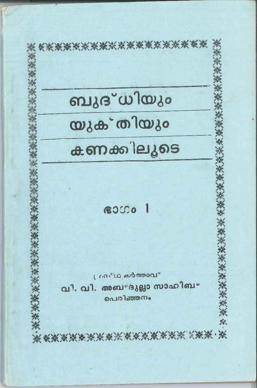 Budhiyum Yukthiyum Kanakkiloode